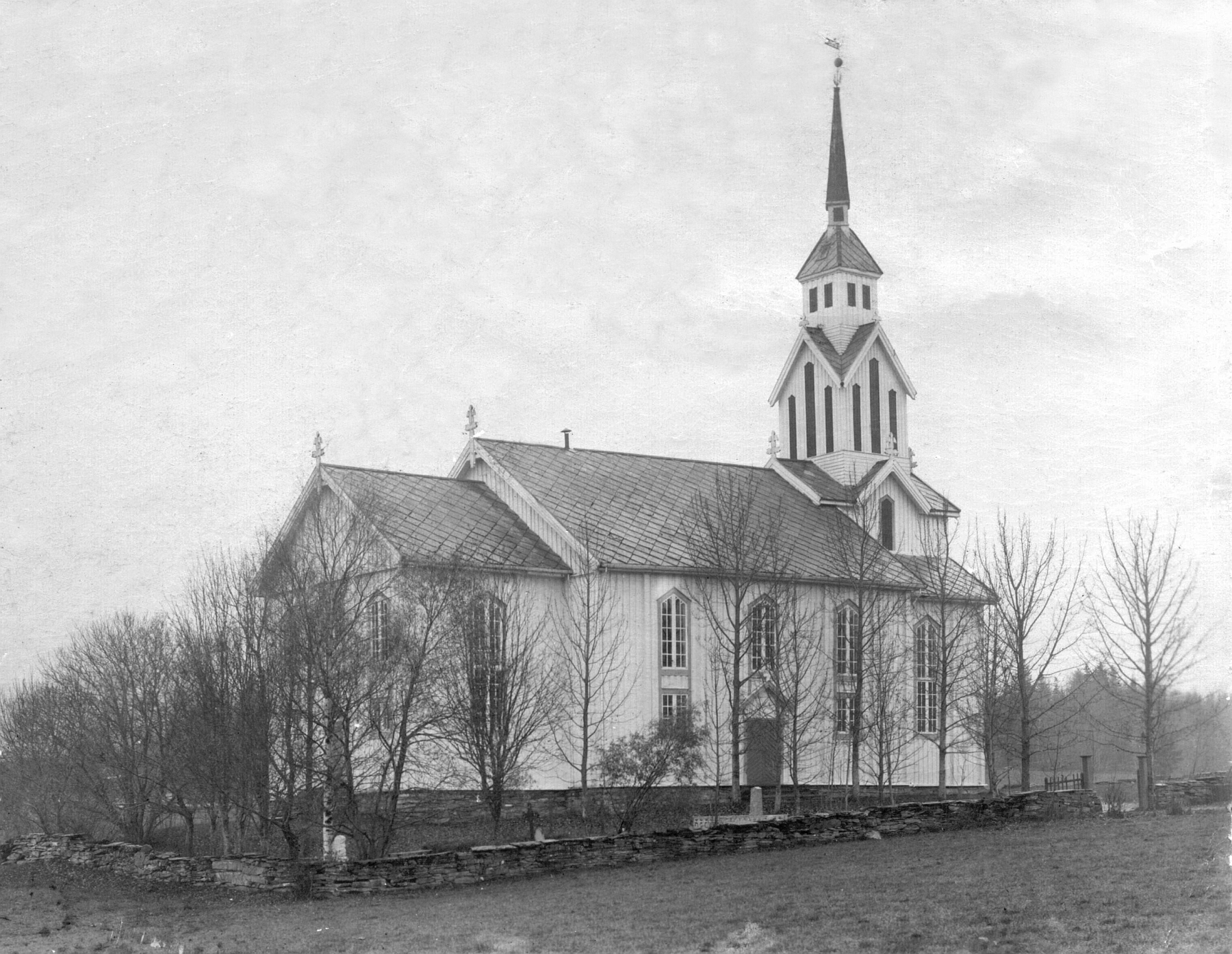 The old Åsen Church, Nord-Trøndelag, Norway. Destroyed by fire in 1902.